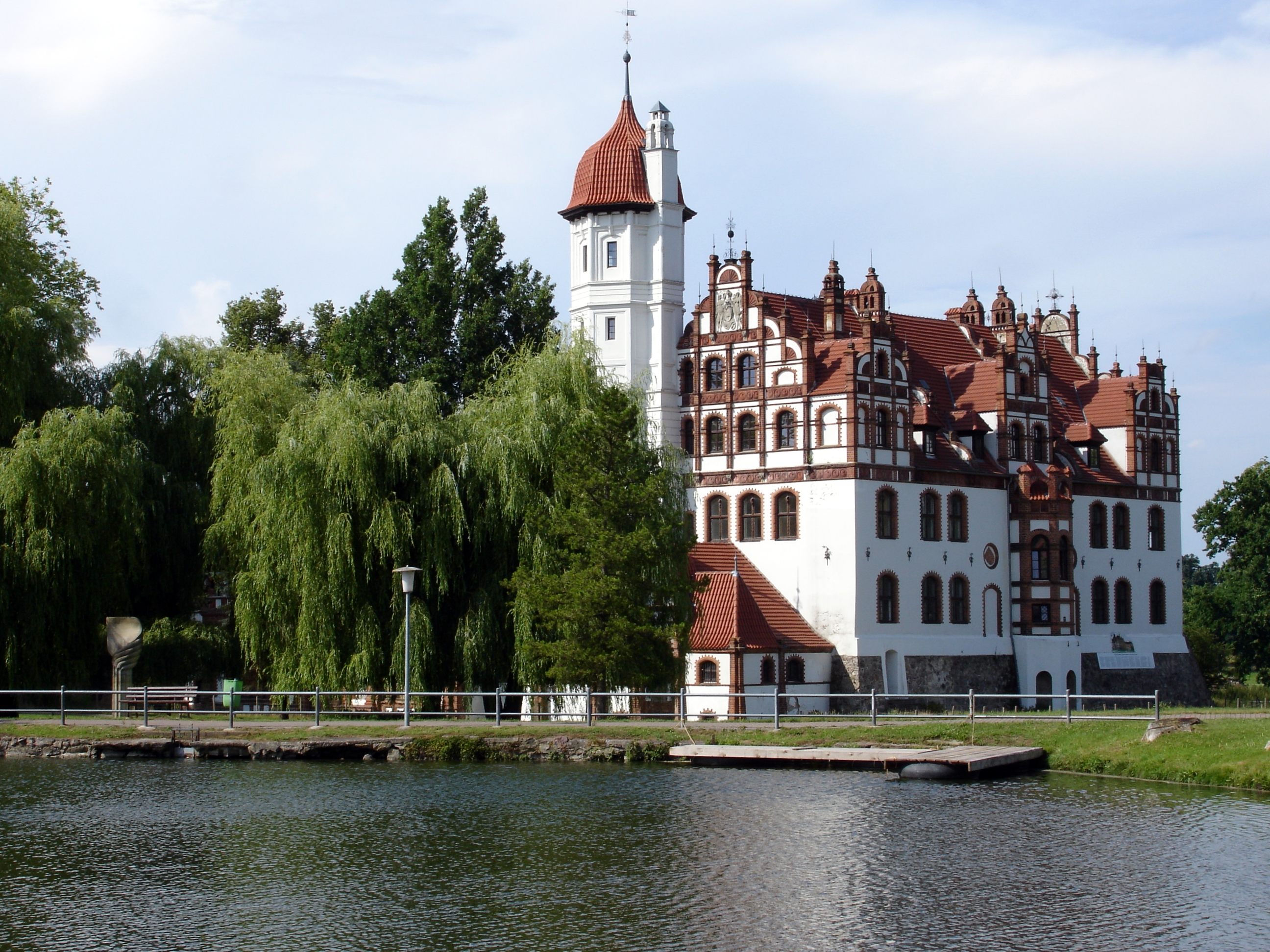 Castle Basedow, Mecklenburg-Vorpommern, Germany